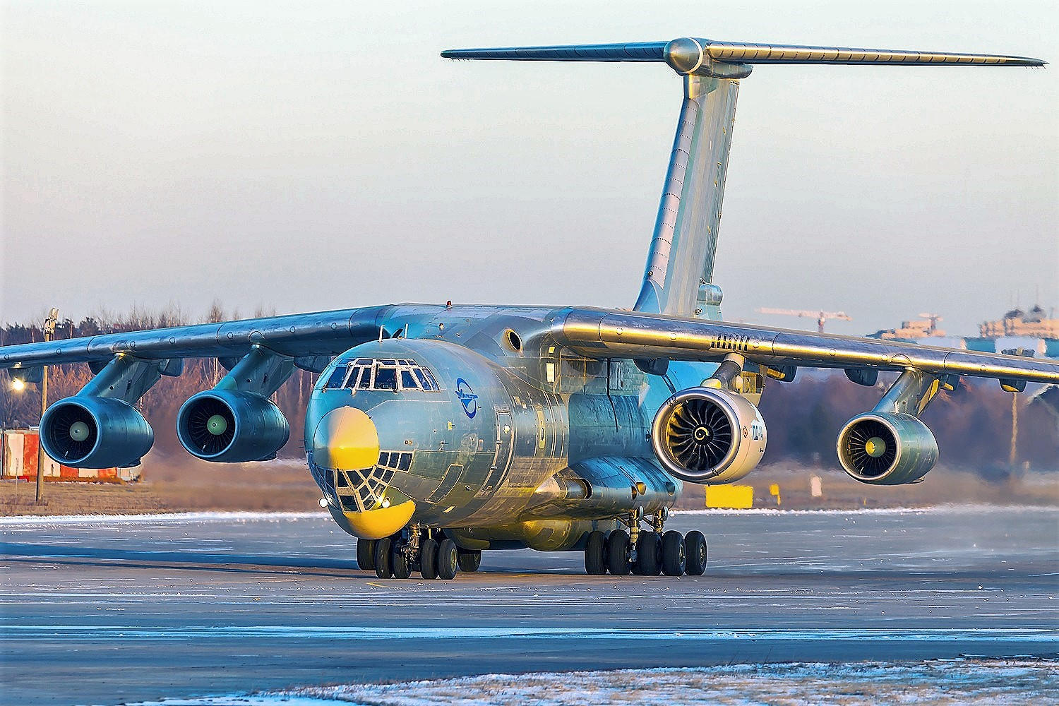 Flight Research Institute, M. Gromov Ilyushin Il-76LL 76259 (cn 073410308) Moscow - Zhukovsky (Ramenskoye) (UUBW), Russian Federation